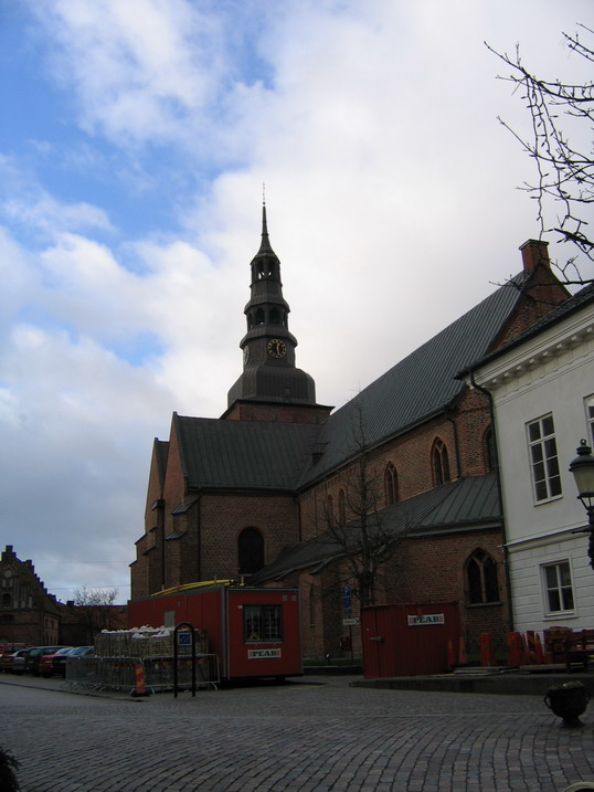 Ystad st mary church,Sweden